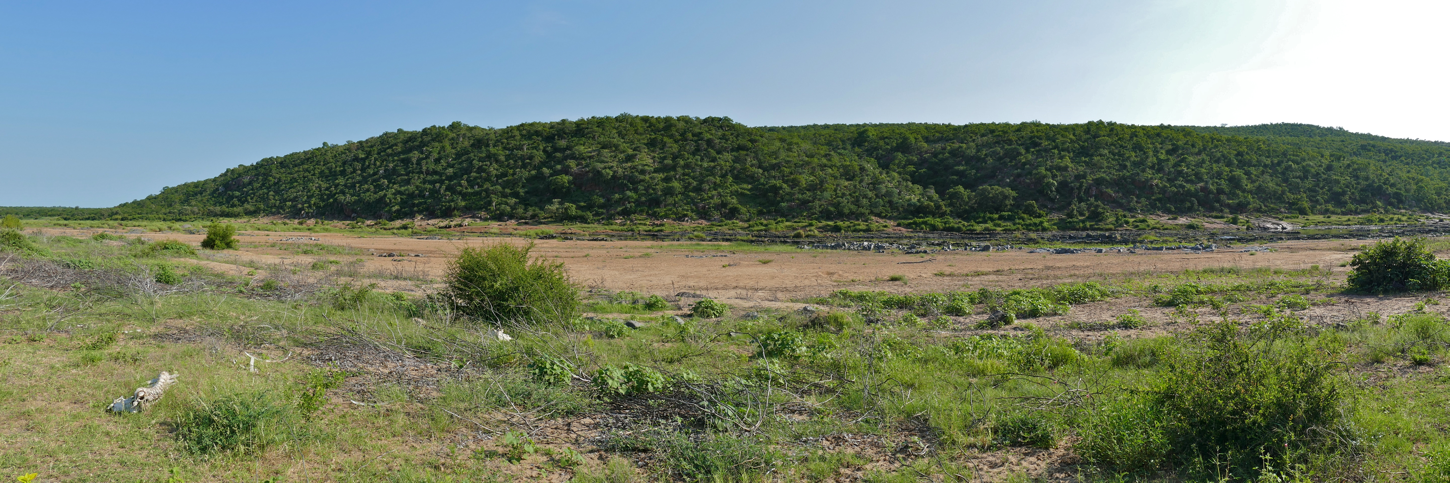 S93 Road South of Letaba, Kruger NP, SOUTH AFRICA